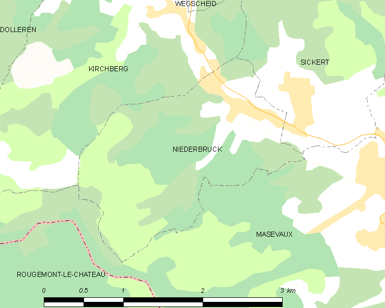 Map of French municipality